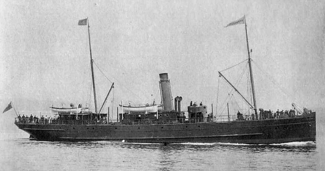 The photo shows the s.s. Hebrides (built 1898) in her very early days. It is possible that this shows the ship on trials on the Clyde estuary.